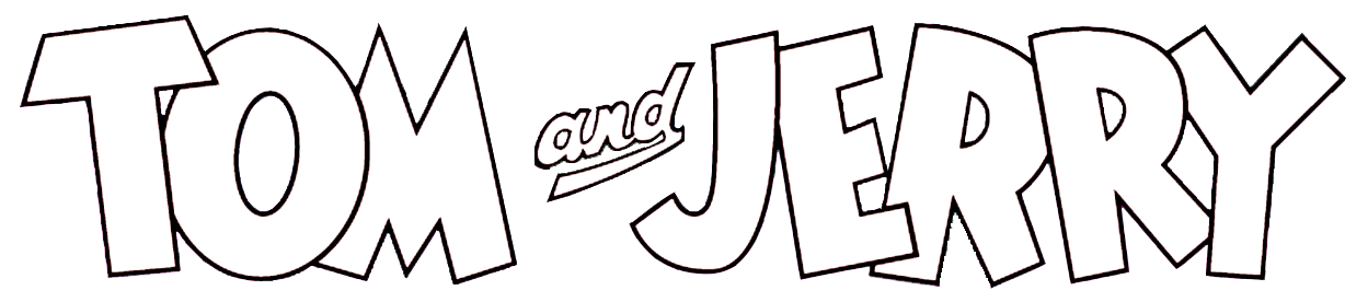 Logo of Tom & Jerry